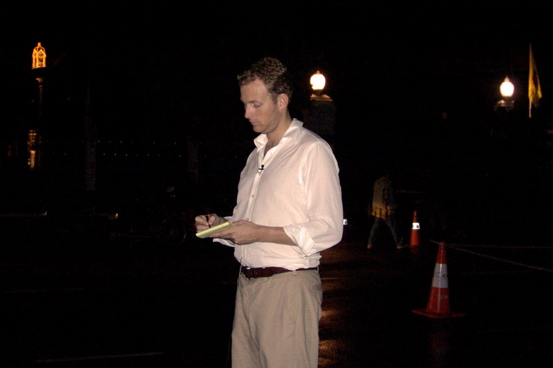 CNN Reporter Dan Rivers prepares for his Breaking News report. However the feeds within the country itself were blocked off, as well as most internet service providers. Manik Sethisuwan 02:17, 4 February 2007 (UTC)